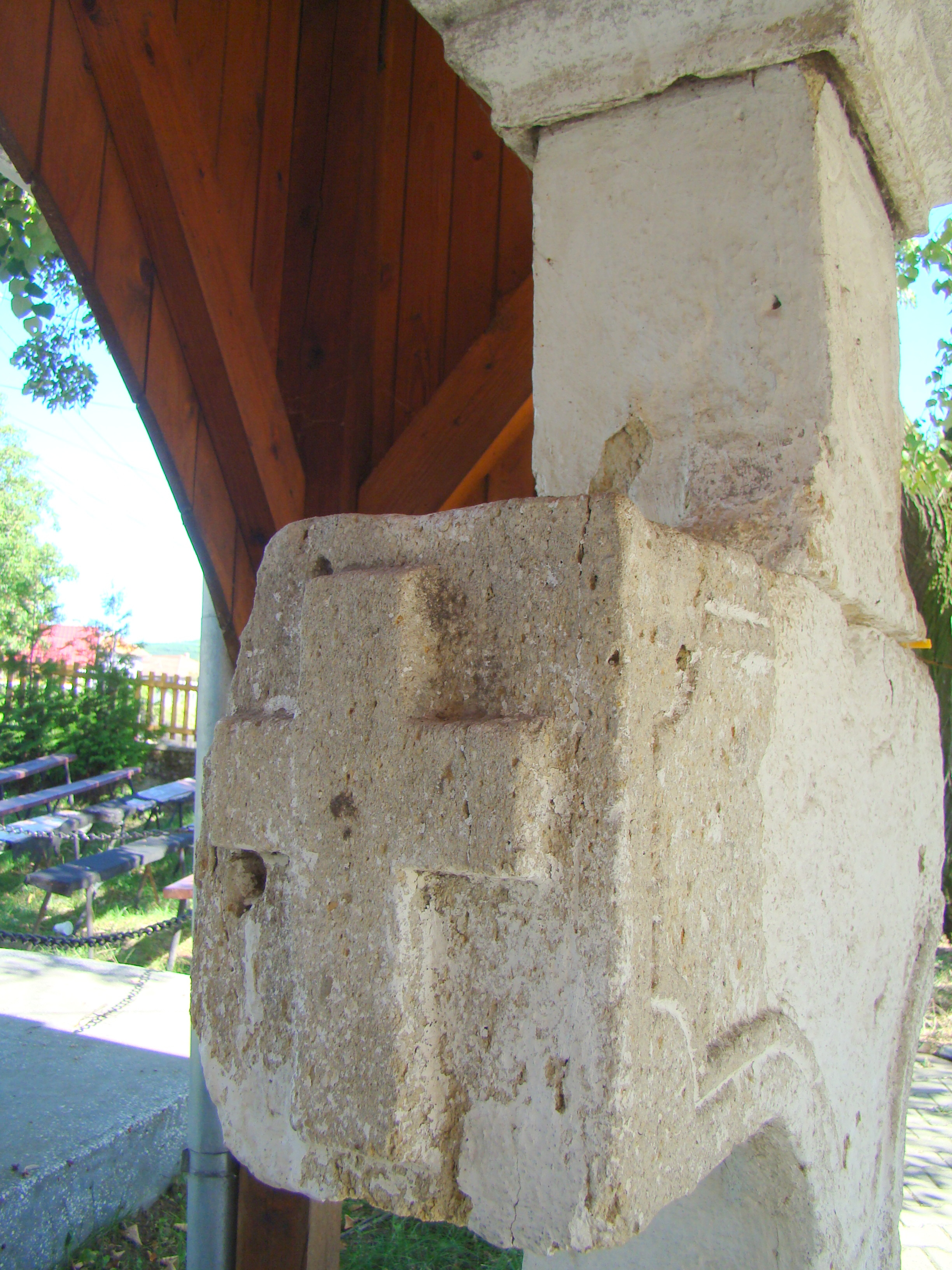 The old graveyard of Saint Paraskeva's church in Ampoița, Alba county, Romania 02